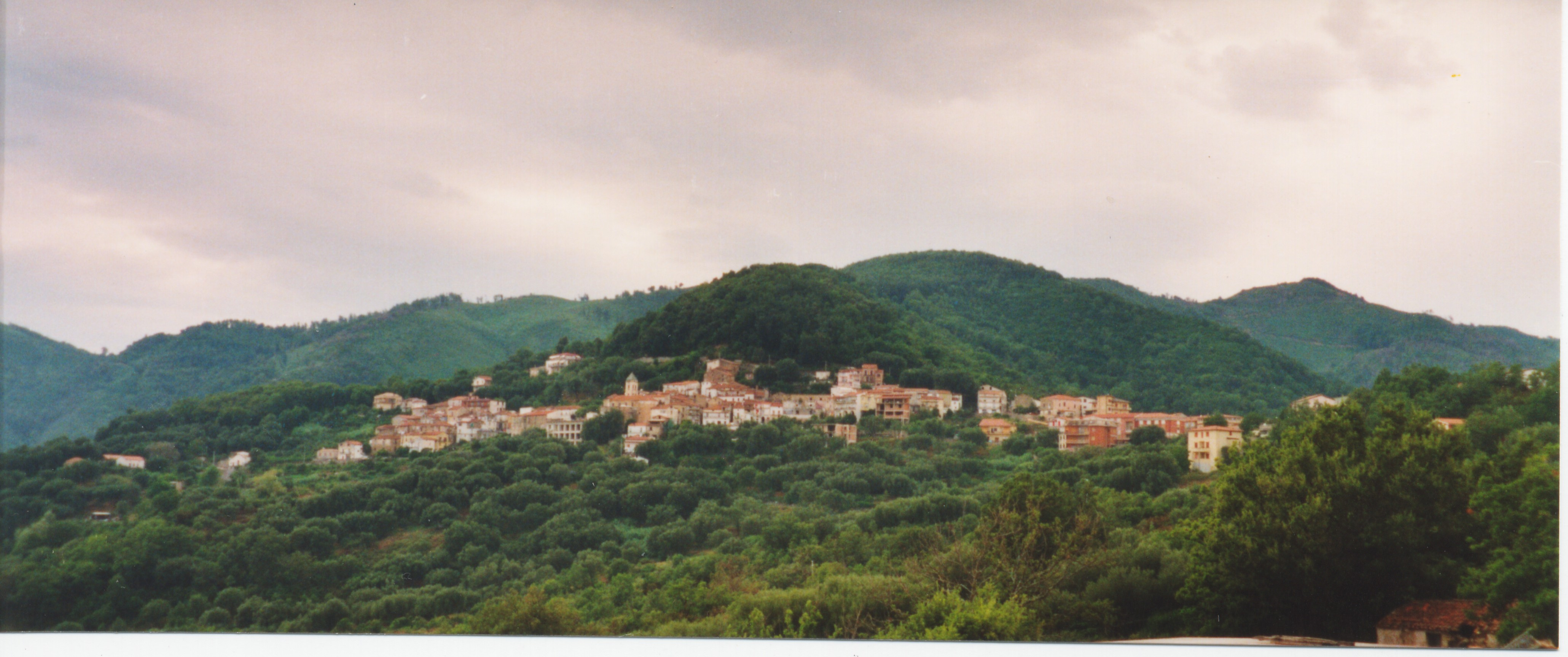 San Mauro la Bruca — in Cilento, Salerno. In Cilento and Vallo di Diano National Park — in Campania.